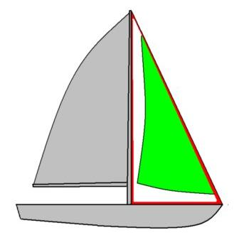 jib